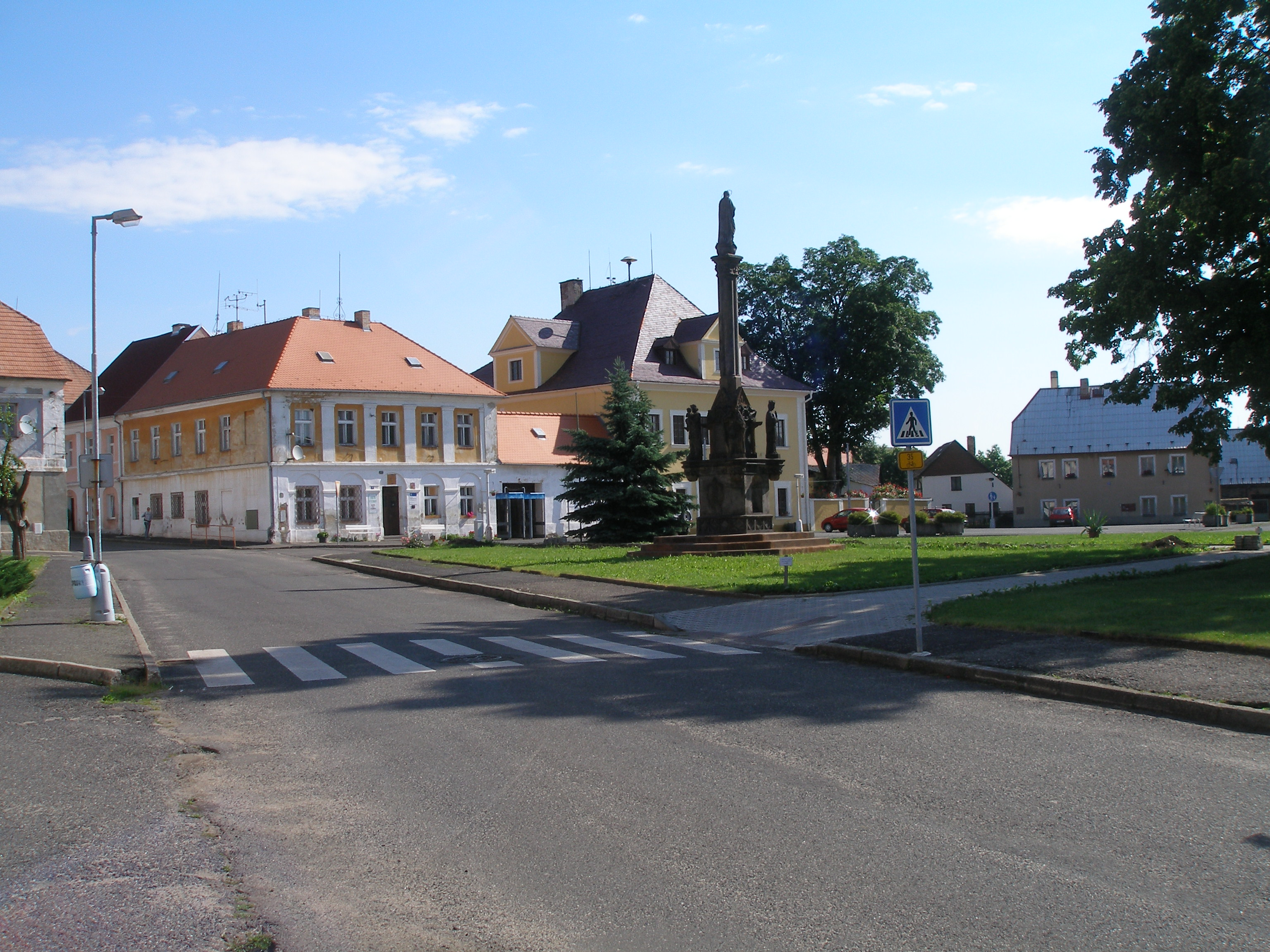 Radonice (Chomutov District) - the Northern side of the square